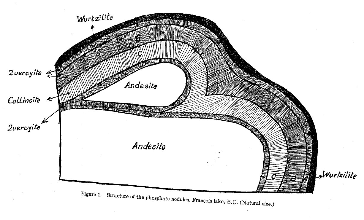 A diagram of a phosphorite nodule from near François Lake, British Columbia. At the center is andesite, surrounded by layers of the mineral collinsite and the improperly classified mineral quercyite. The outermost layer is wurtzilite. The caption reads "Figure 1. Structure of the phosphate nodules, François Lake, B.C. (Natural size.)"